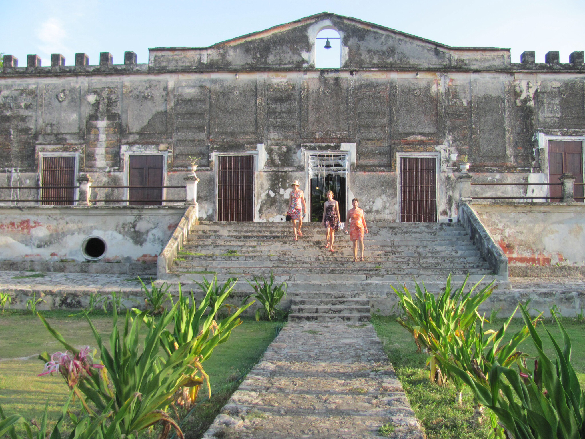 The haciënda Yaxcopoil near Merida